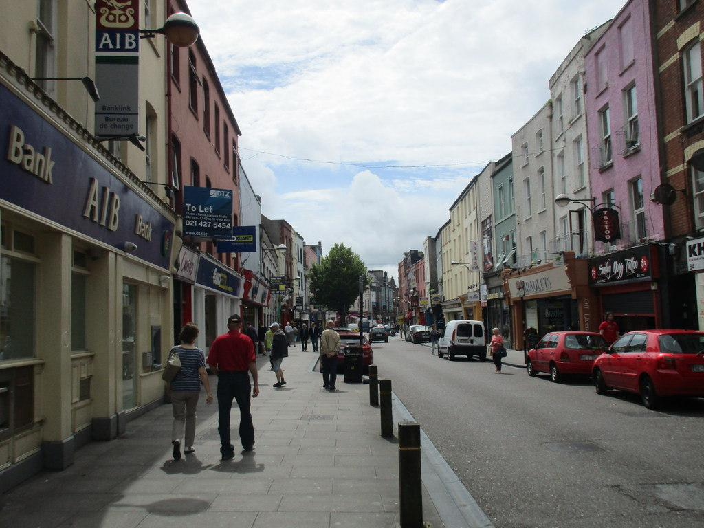 North Main Street